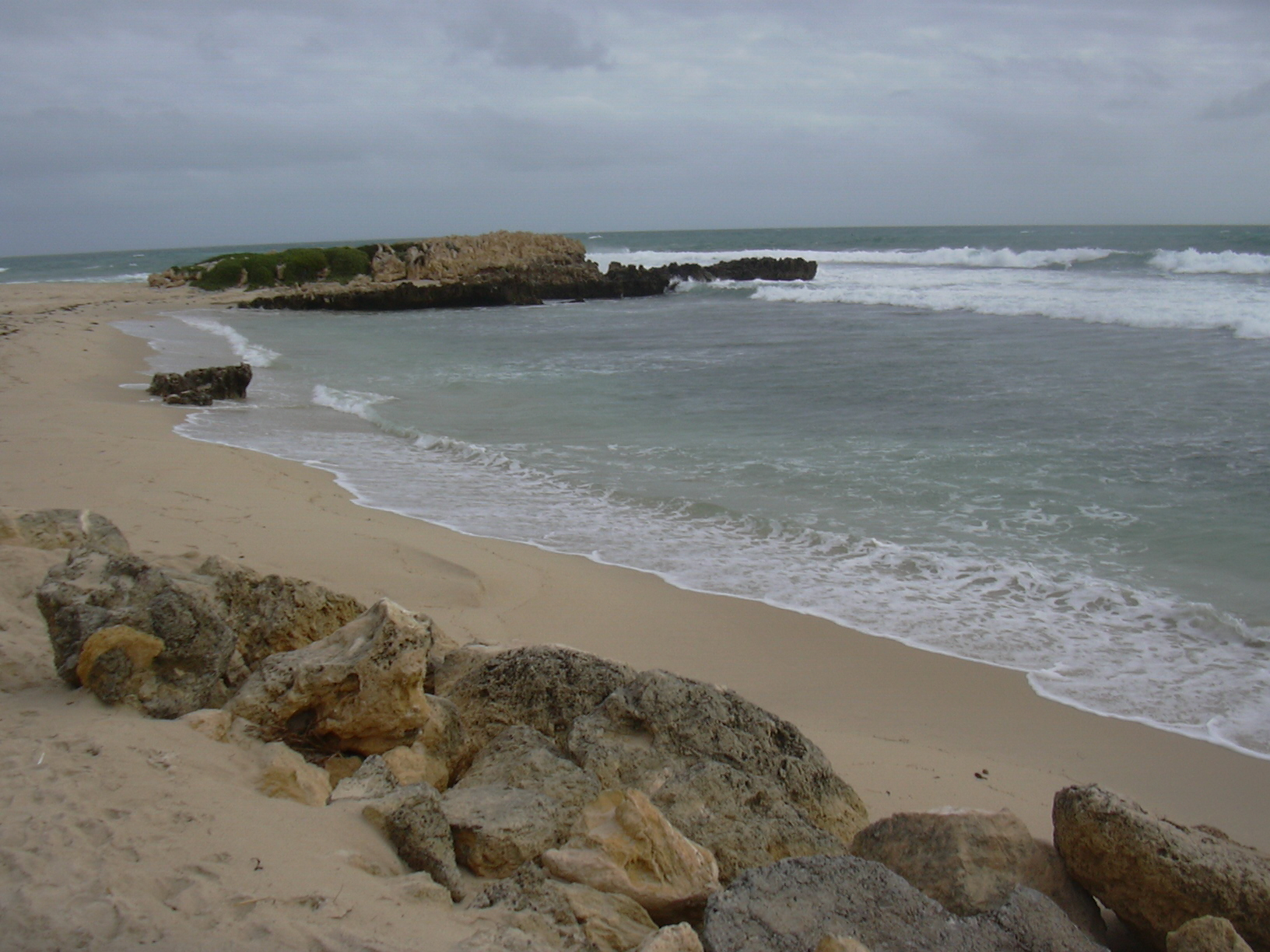 Trigg Beach, Western Australia, in stormy weather